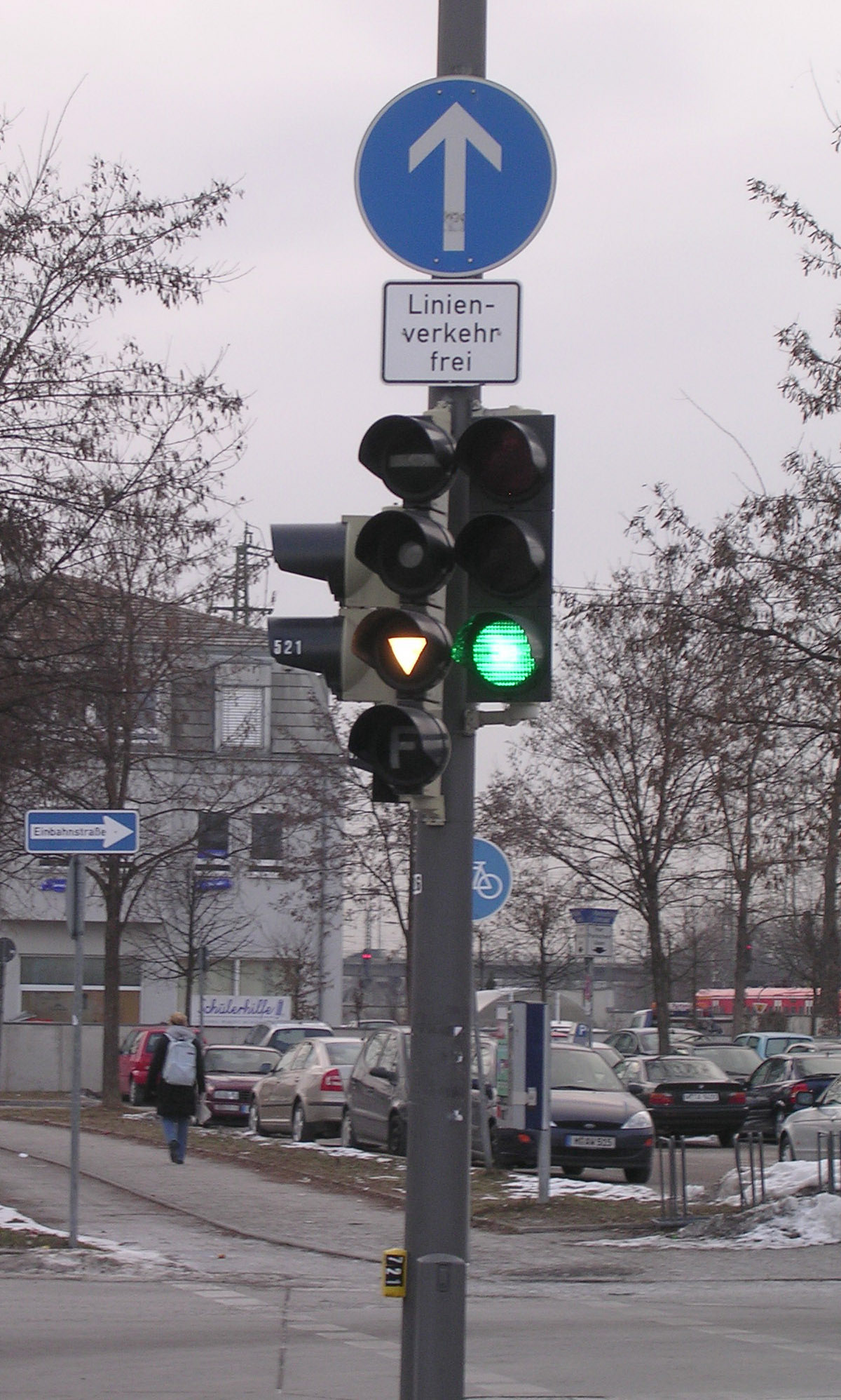 traffic sign. photographed in munich by me.